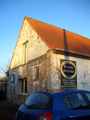 Exterior view of the Brasserie Thiriez in Esquelbecq, France, taken in November 2007.